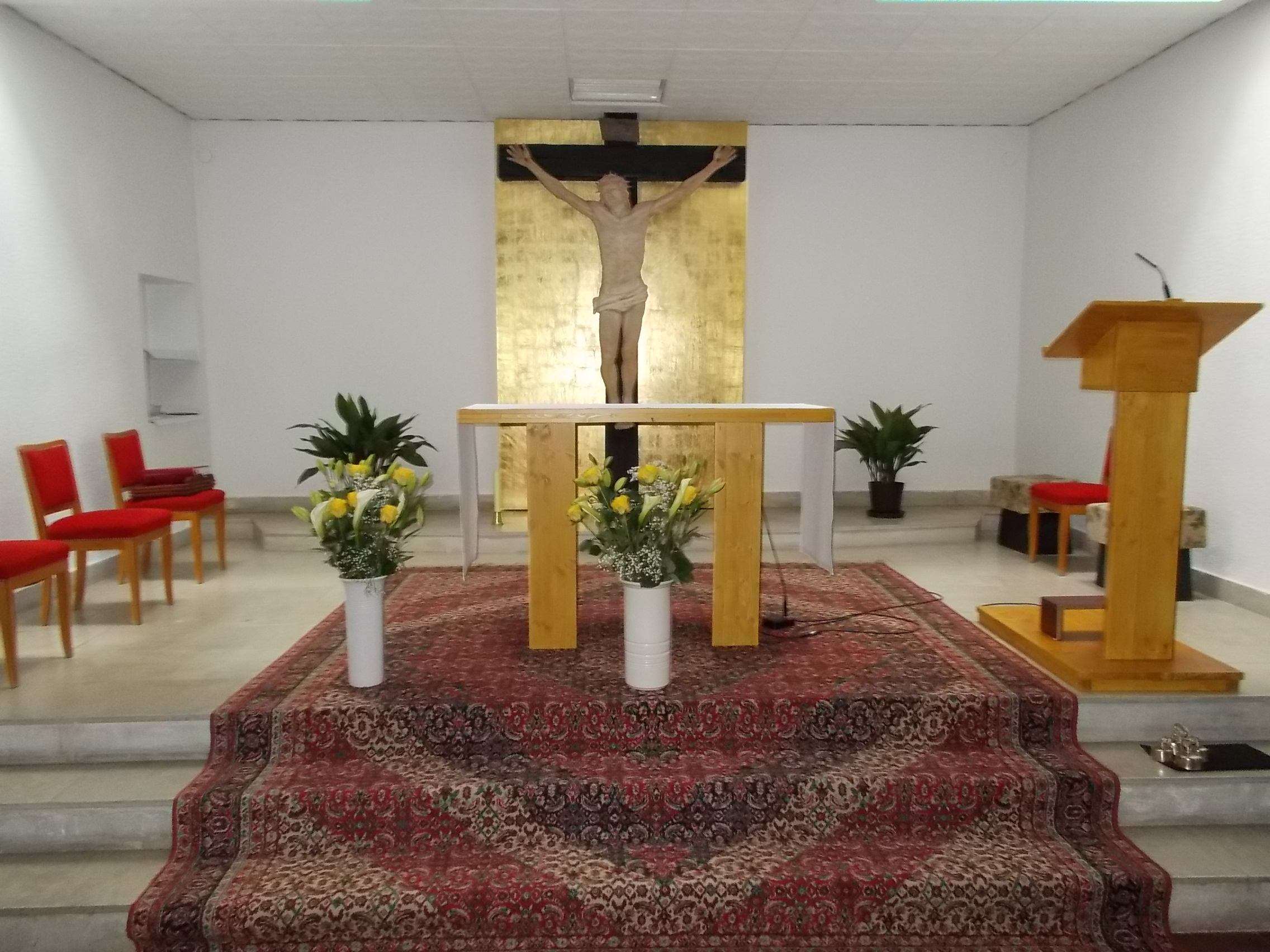 Saint Rita Church. - Kun Street, Népszínház neighbourhood, Budapest District VIII.